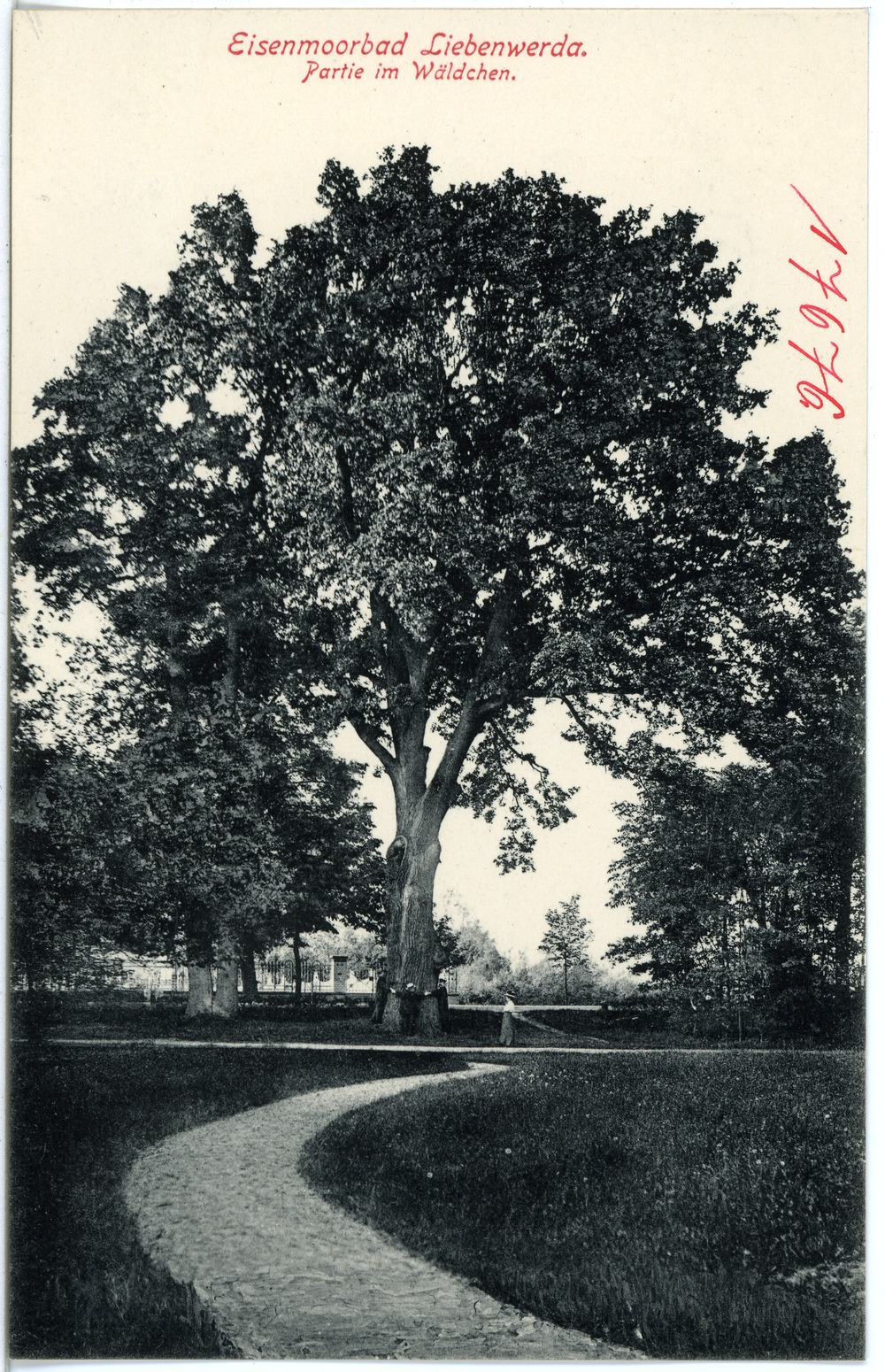 This postcard is from publisher Brück & Sohn in Meißen ( This postcard has a unique number 17676 and is available in a higher resolution at the publisher. This images was uploaded in a cooperation project between Wikipedians and the publisher.